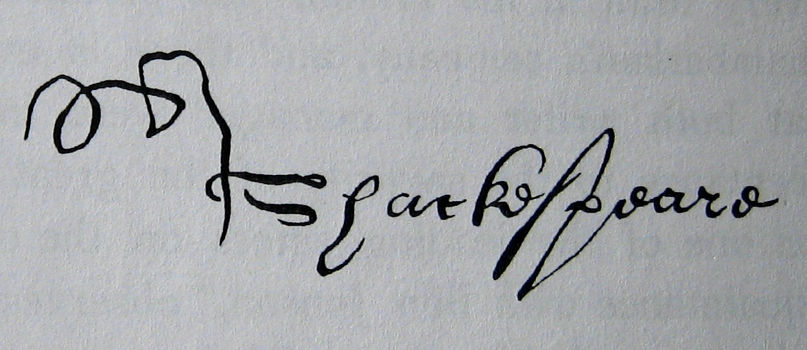 Facsimile of the signature of Judith Shakespeare, from a deed of Elizabeth Quiney.